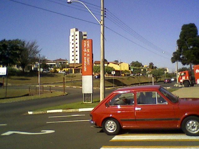 University of São Paulo at São Carlos.